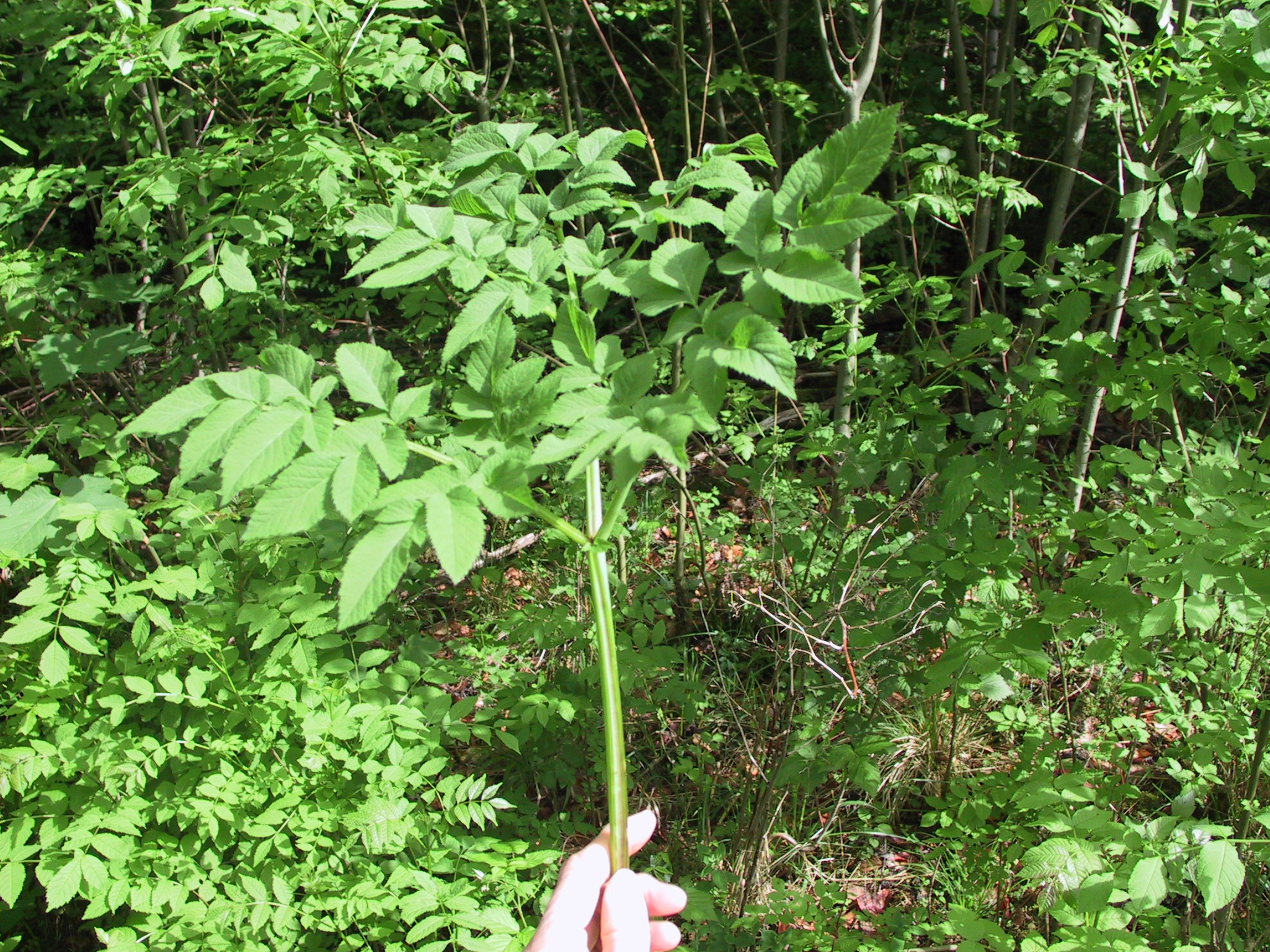 Description: Angelica_sylvestris, Leaf (Germany, Ith) Source: self made Date: 2006-21-05 Author = --Ruestz 21:40, 4 June 2006 (UTC)